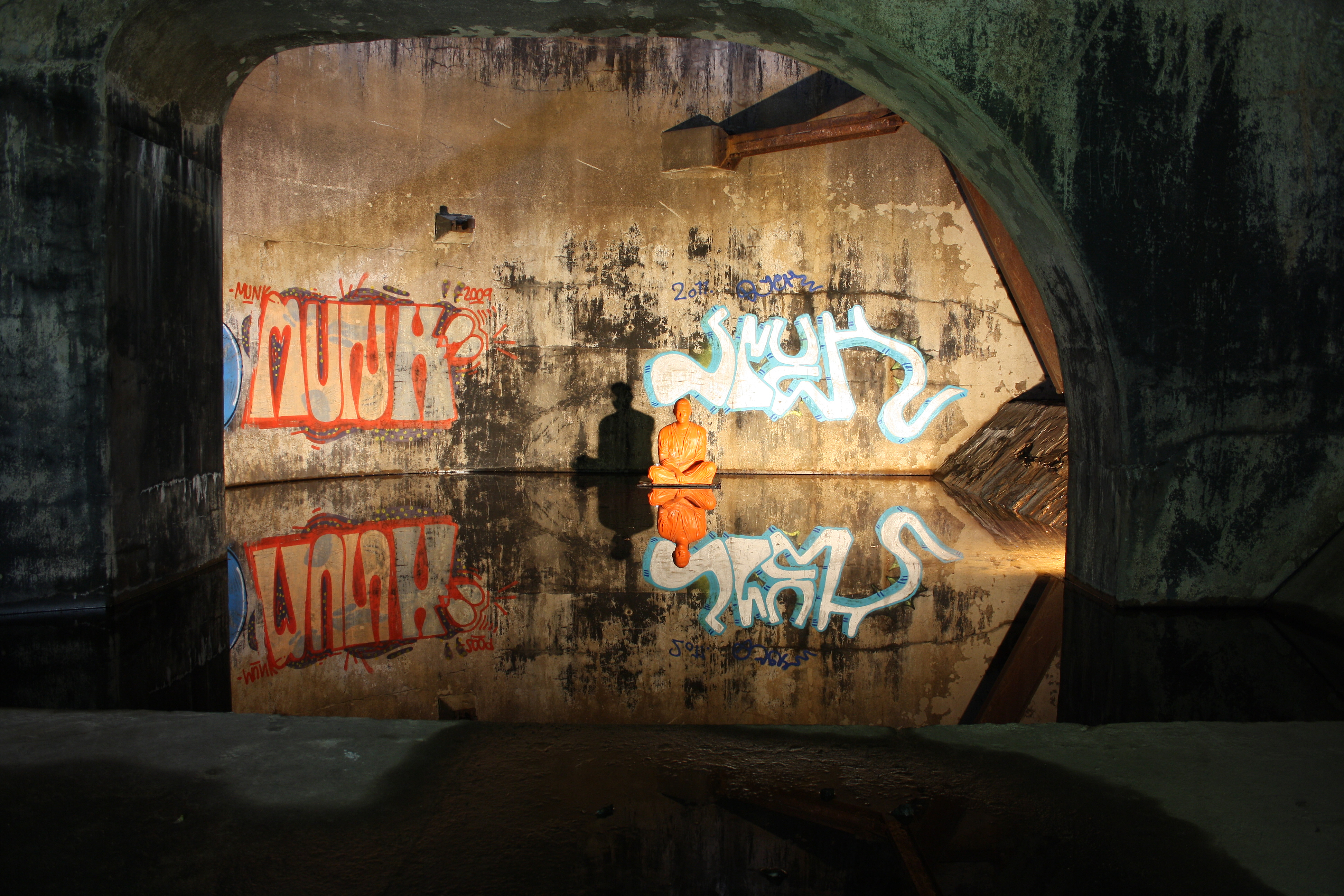 The artwork is by the river in Baggböle, about 10 km west of Umeå. The name is based on a misunderstanding of the project's beginning, since "Seven Rivers" sounds like 7 11 in Swedish. Therefore was the artwork named 8 11.